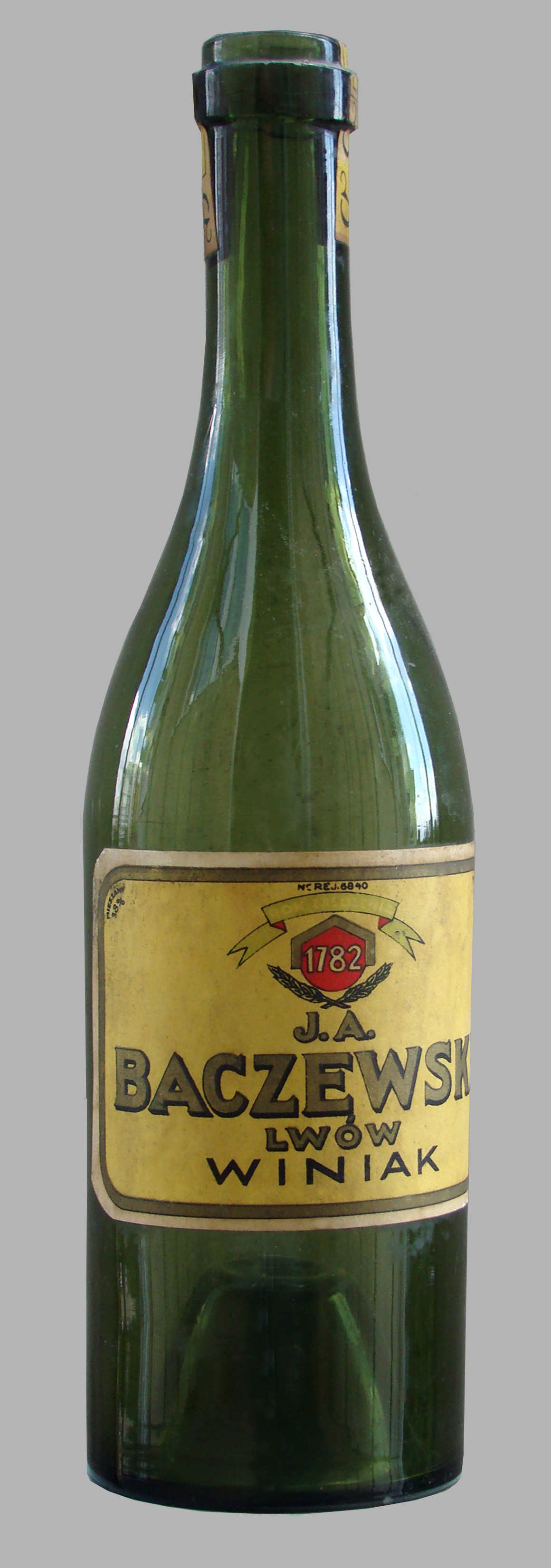 Empty bottle of Baczewski Winiak brandy produced until 1939 in Lwów/Lviv